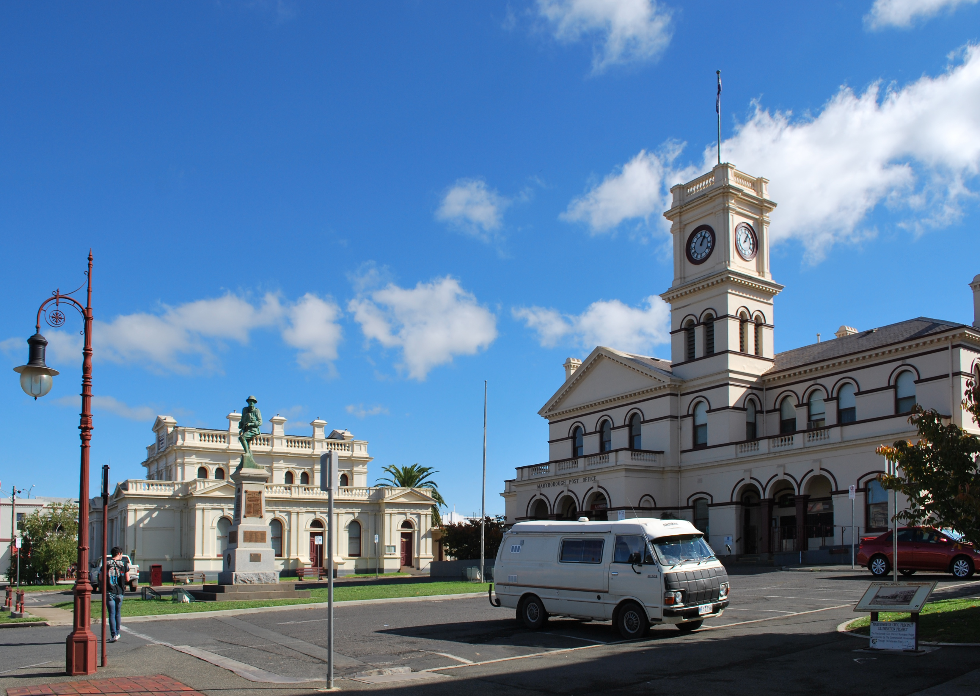 McLandress Square at Maryborough, Victoria